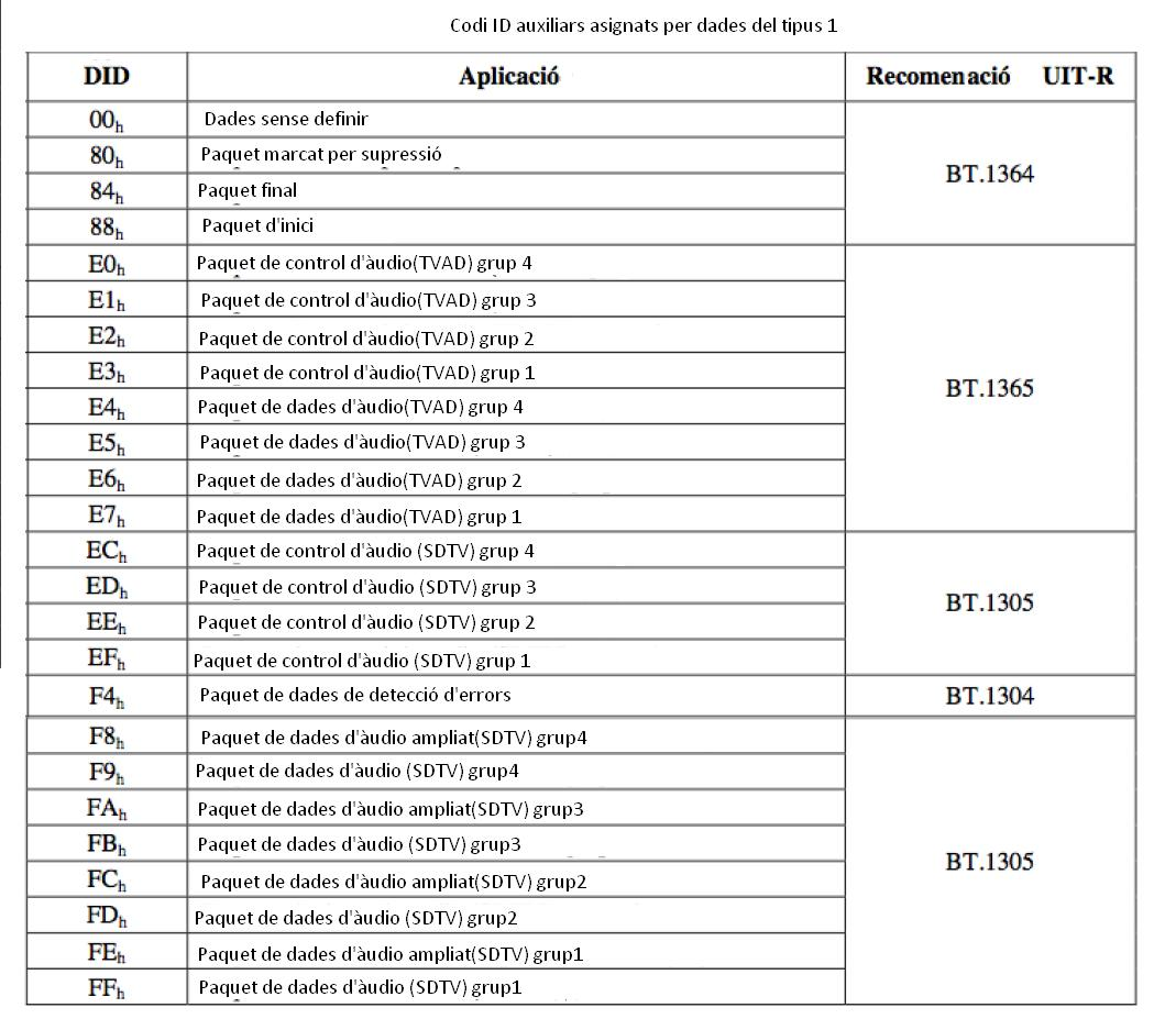 taula ID tipus 1